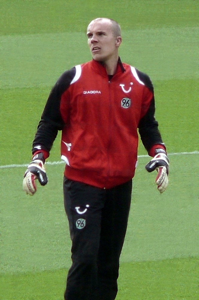 Robert Enke before a match for Hannover 96.